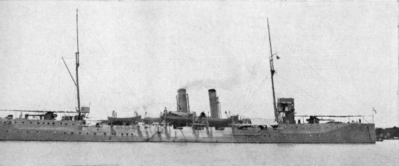 Copyright on photos in the PRC expire 50 years after publication. Other information Copyright on photos in the PRC expire 50 years after publication. The Chao Ho was sunk in 1937.